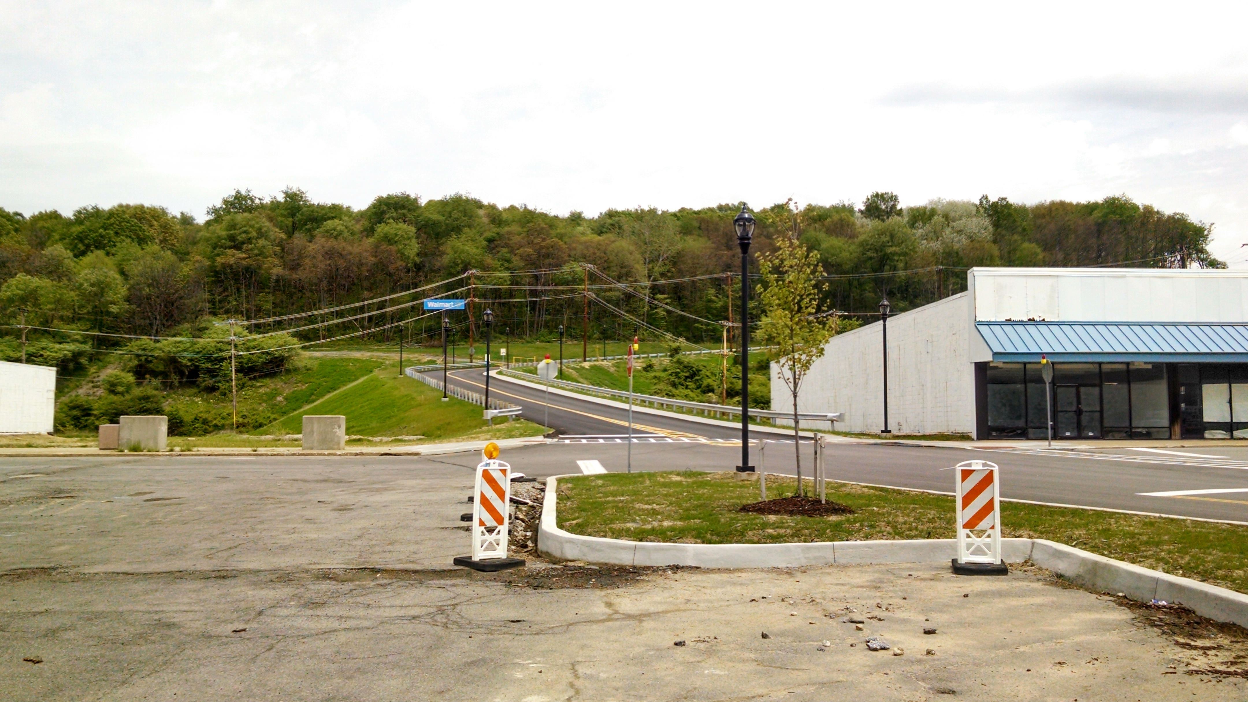 Road on the eastern side of the Northern Lights Shopping Center in Economy, Pennsylvania, United States. A JC Penney store was formerly located here, but the building was demolished to build this road, which now furnishes access to a distant Wal-Mart.